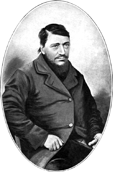 Paul Kruger, the future President of the South African Republic, around 1865. This is reputed to be the only photograph of him where his thumbless left hand is visible; he almost always hid it from photographers.